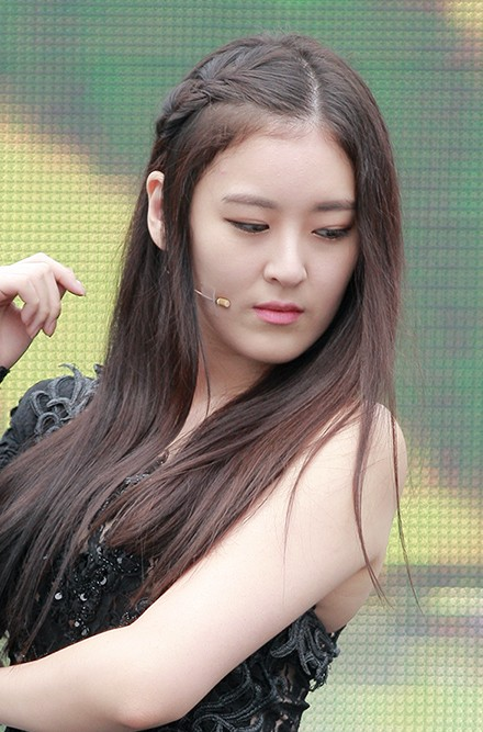 Xia of Rania at the 60th anniversary commemoration of the ROK-U.S. Mutual Defense Treaty, September 2013